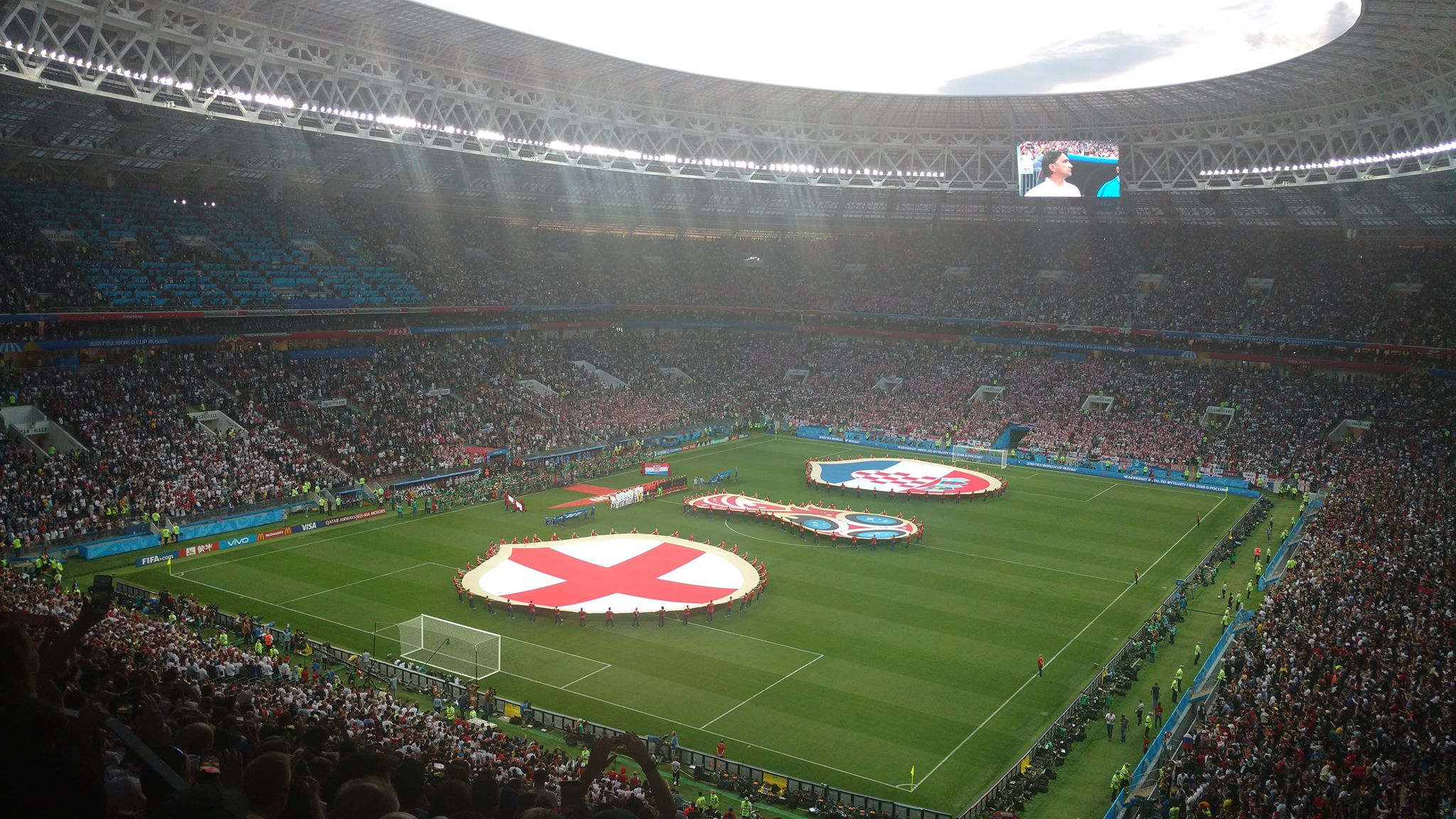 Picture of the 2018 World Cup Semifinal between England and Croatia. This picture was taken minutes before the commencement of the national anthems.